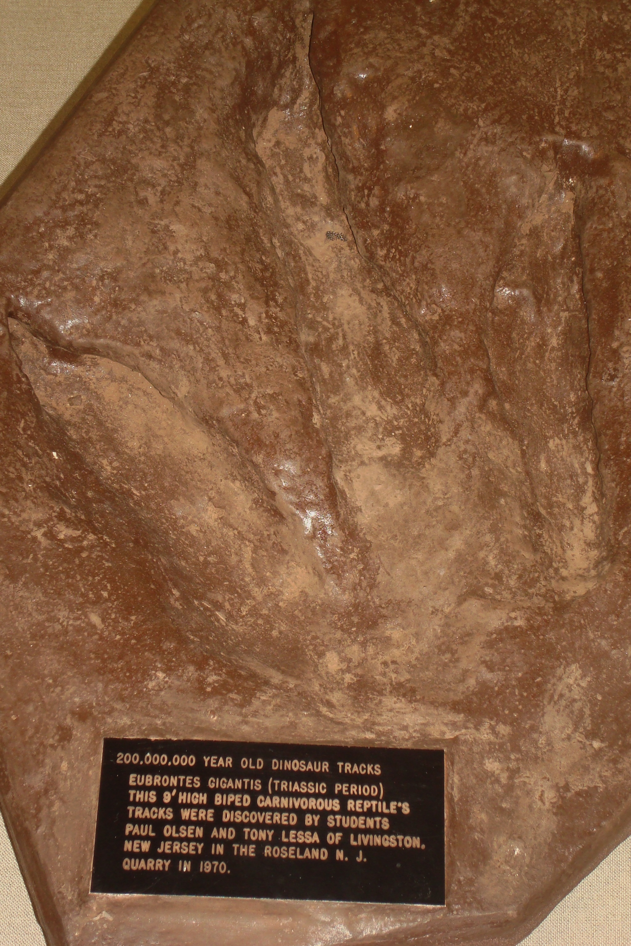 Cast of Eubrontes giganteus track by Paul Olsen in 1970. Picture taken at National Archives, Washington, D.C. in the BIG exhibition in 2009.